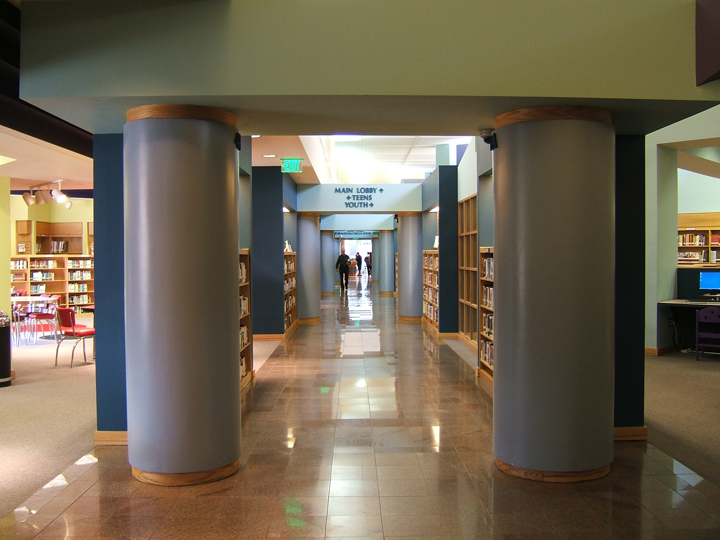 Hoover AL Public Library hallway